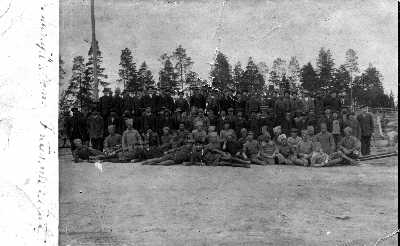 Finnish and Russian Red guards interned at Morjärv in Kalix, Sweden, after the failed revolution in Finland.